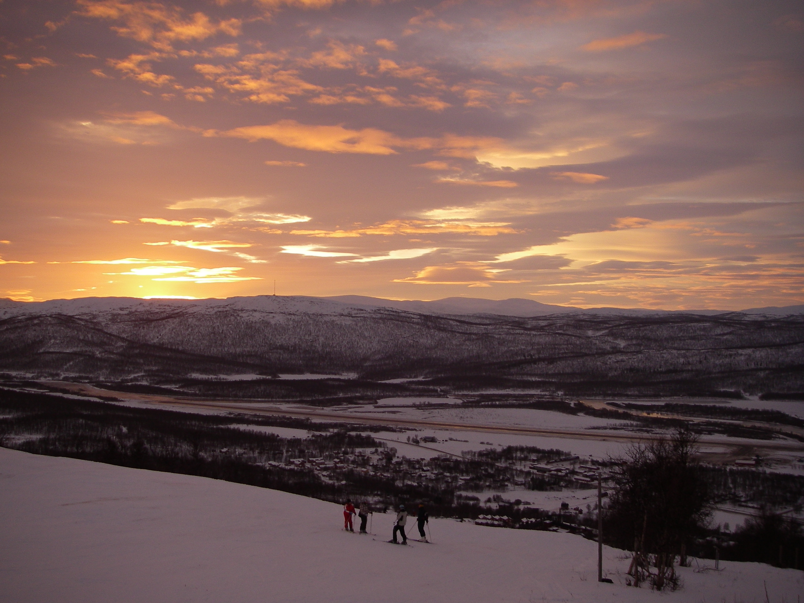 Hemavan valley from the ski resort, at around noon during the winter solstice.